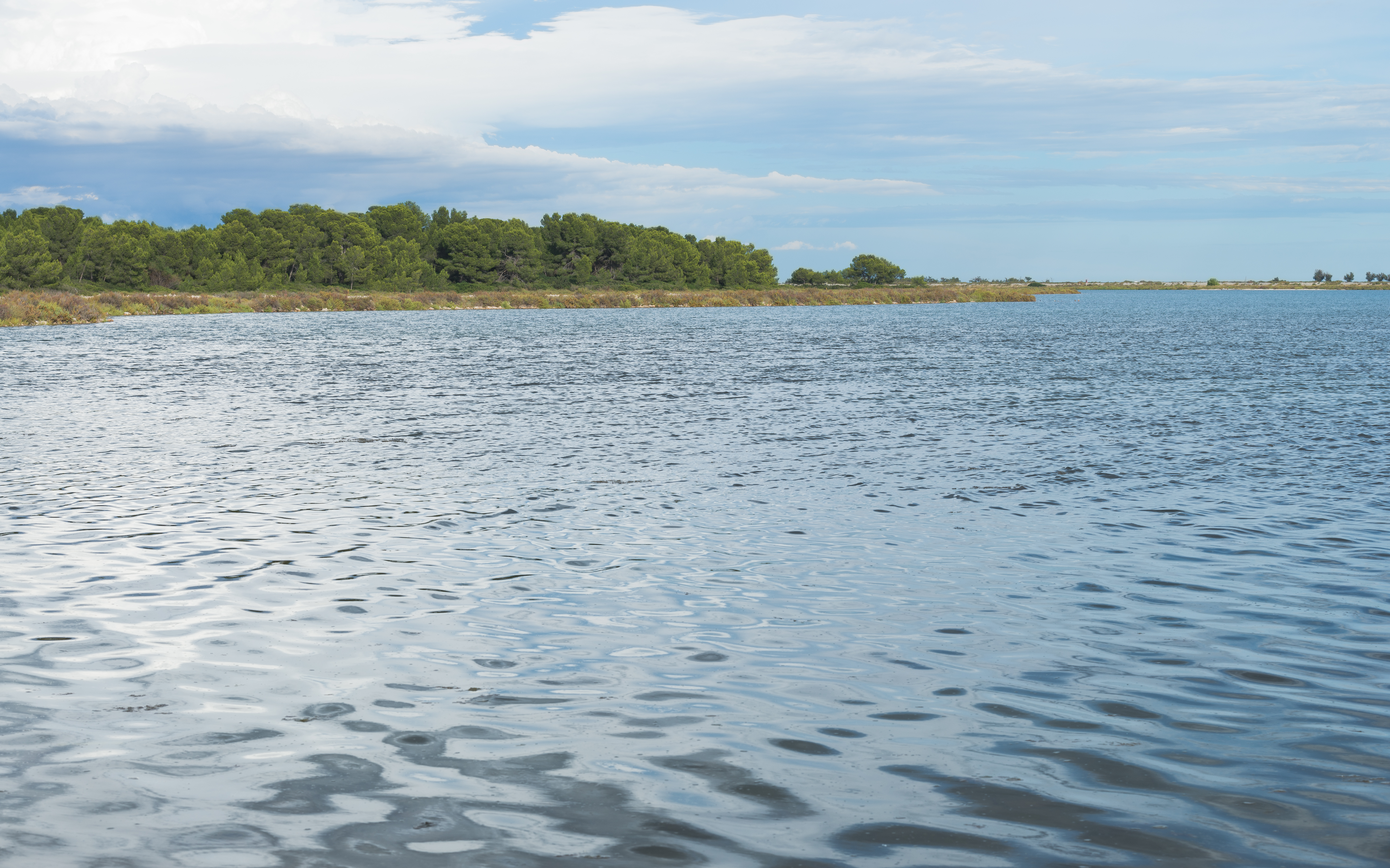 The pines forest of the Bois des Aresquiers and the Étang d'Ingril. Vic-la-Gardiole, Hérault, France.